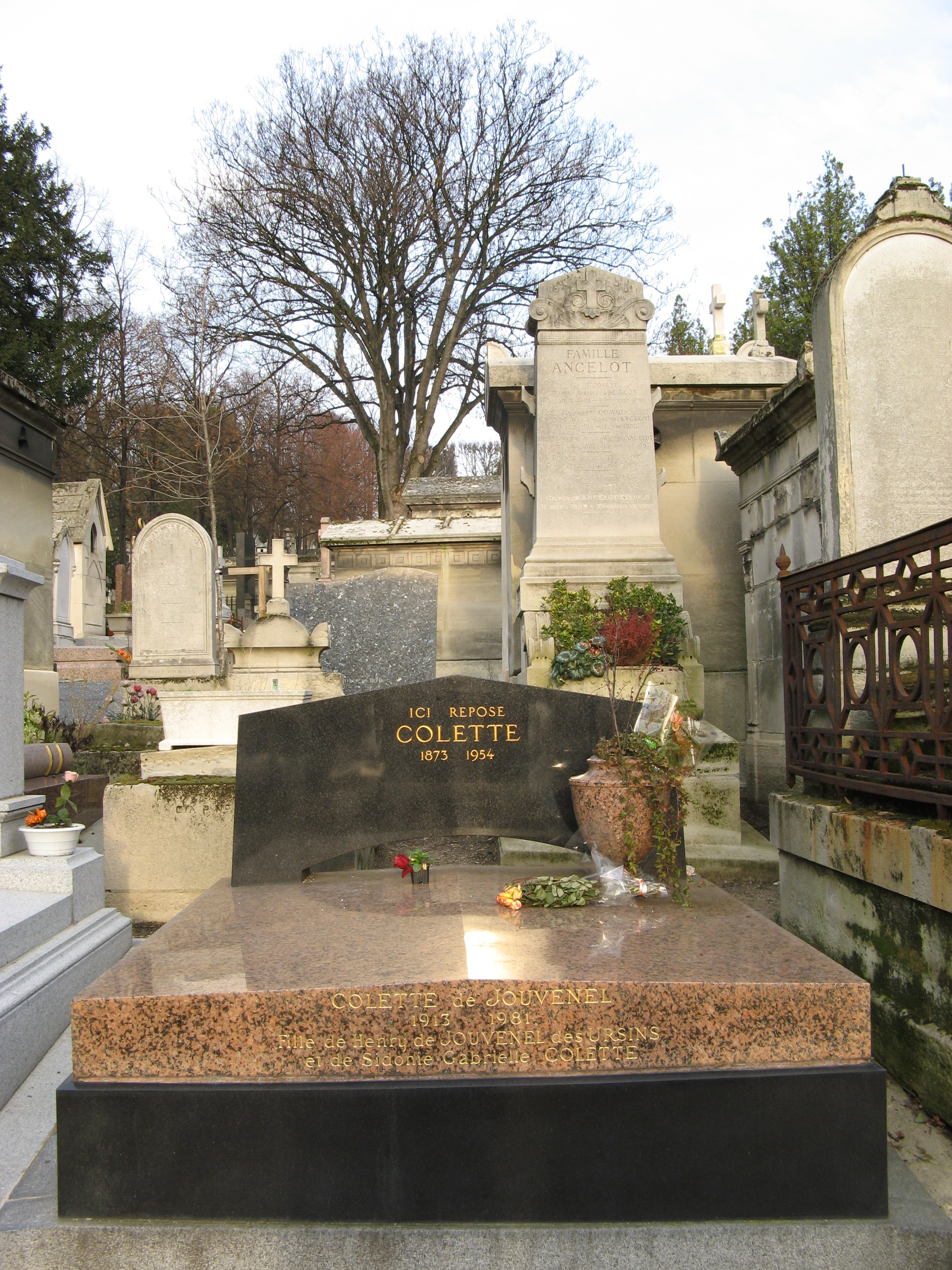 Colette's tombstone in Père Lachaise Cemetery, in Paris.